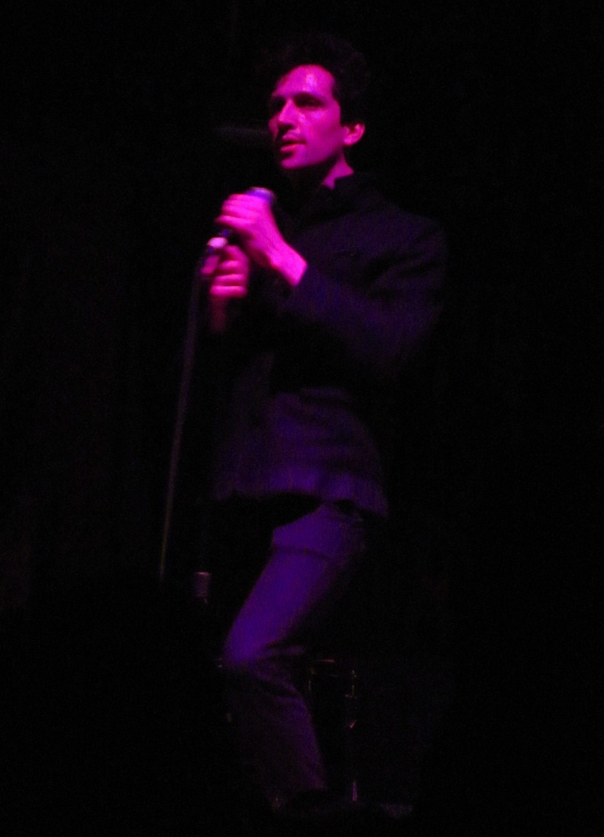 Francis Farewell Starlite performing with Francis and the Lights as the opening act for Mark Ronson & The Business Intl. at Webster Hall in New York City on October 12, 2010